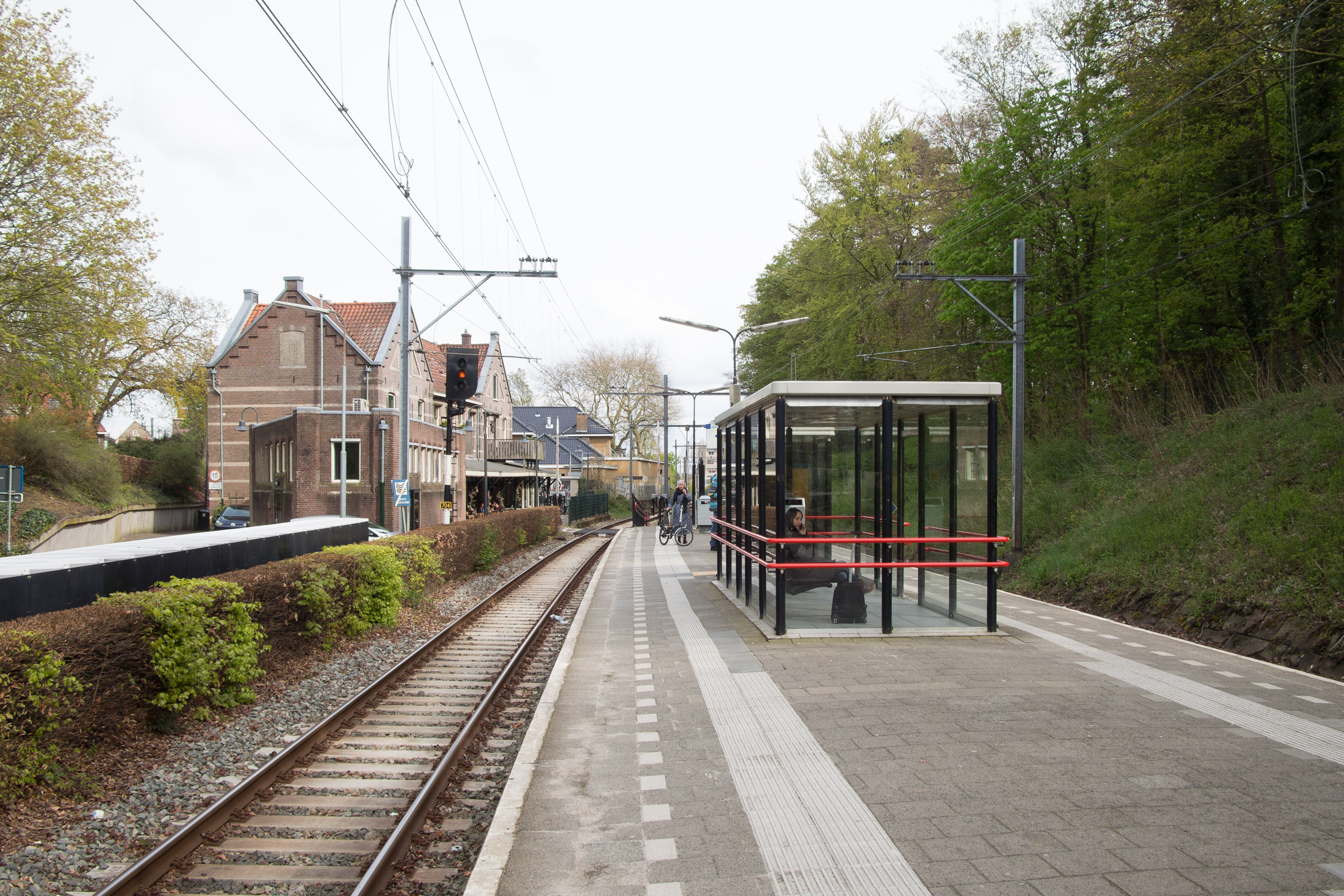 Overveen train station. View towards the east.